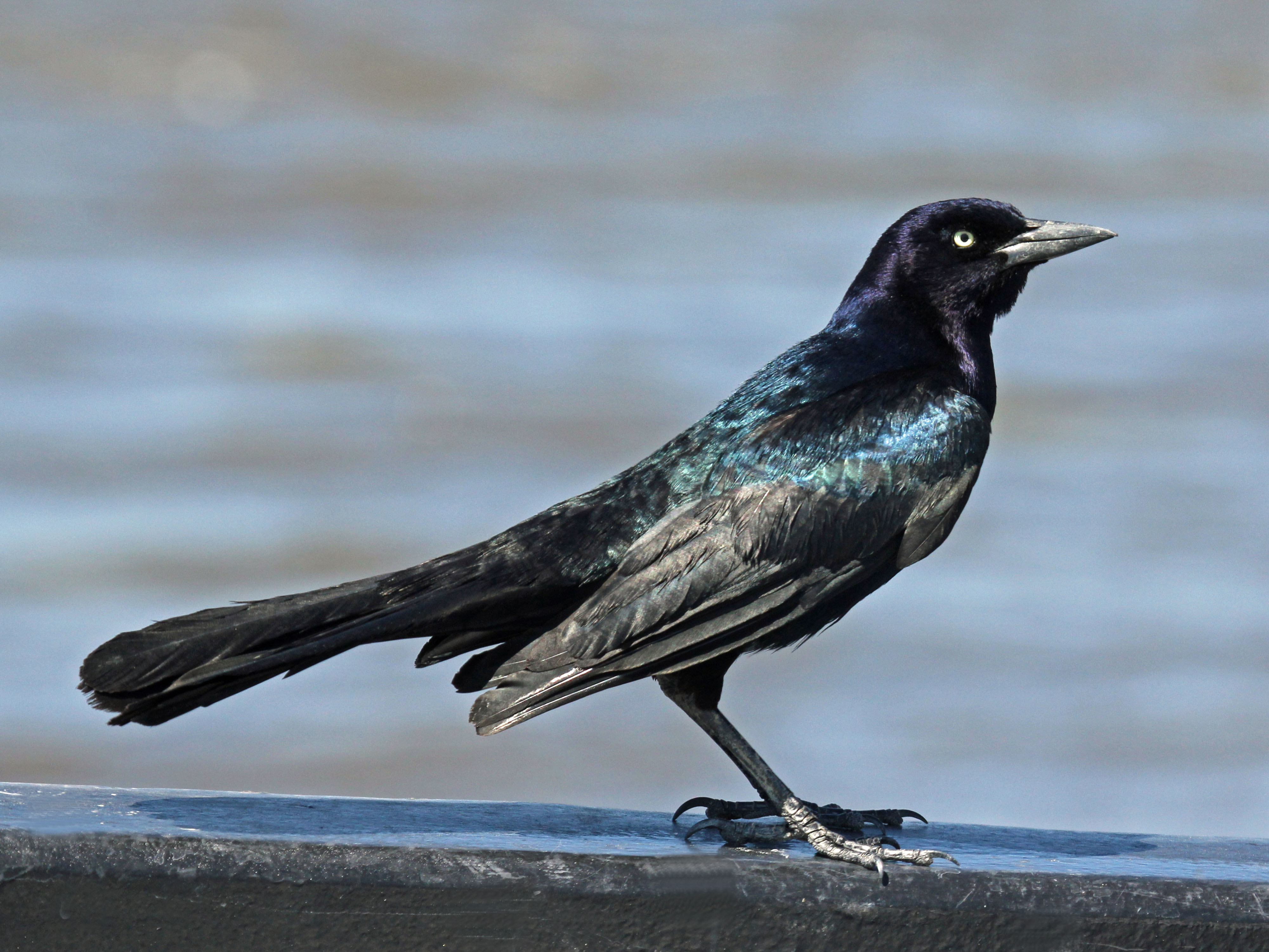 Male Boat-tailed Grackle (Quiscalus major) - Cedar Island Ferry, North Carolina